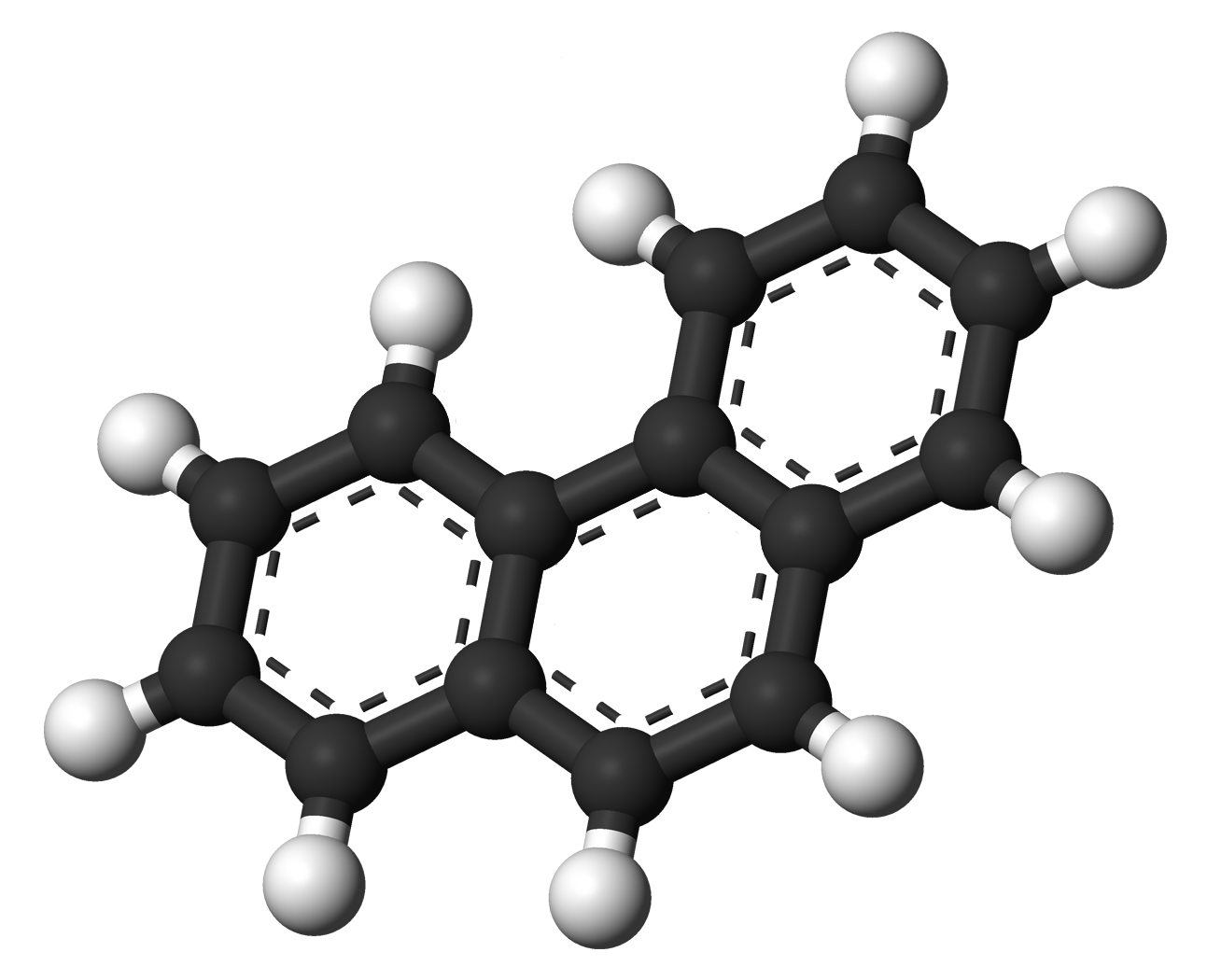 Ball and stick model of the Phenanthrene molecule.